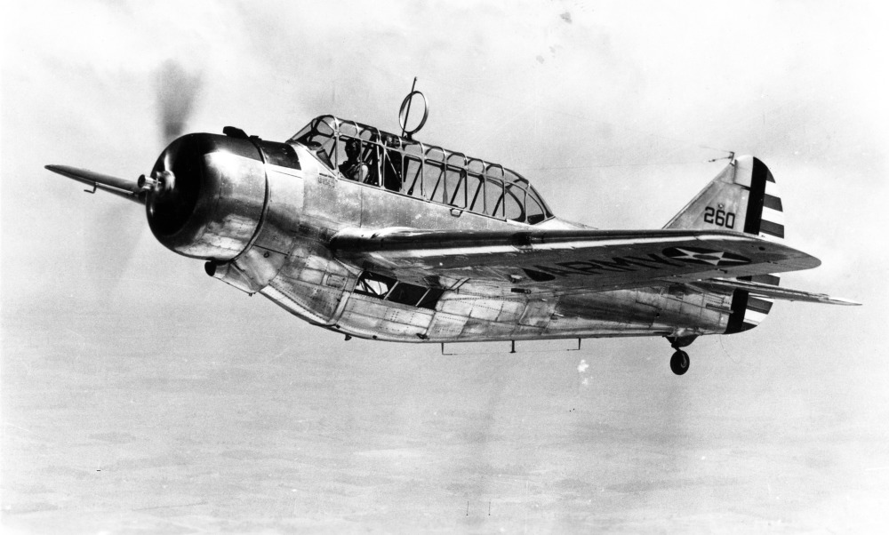 PictionID:40971239 - Title:North American O-27A 37-260 - Catalog:15_002828 - Filename:15_002828.tif - Image from the Charles Daniels Photo Collection album "US Army Aircraft."----PLEASE TAG this image with any information you know about it, so that we can permanently store this data with the original image file in our Digital Asset Management System.----SOURCE INSTITUTION: San Diego Air and Space Museum Archive